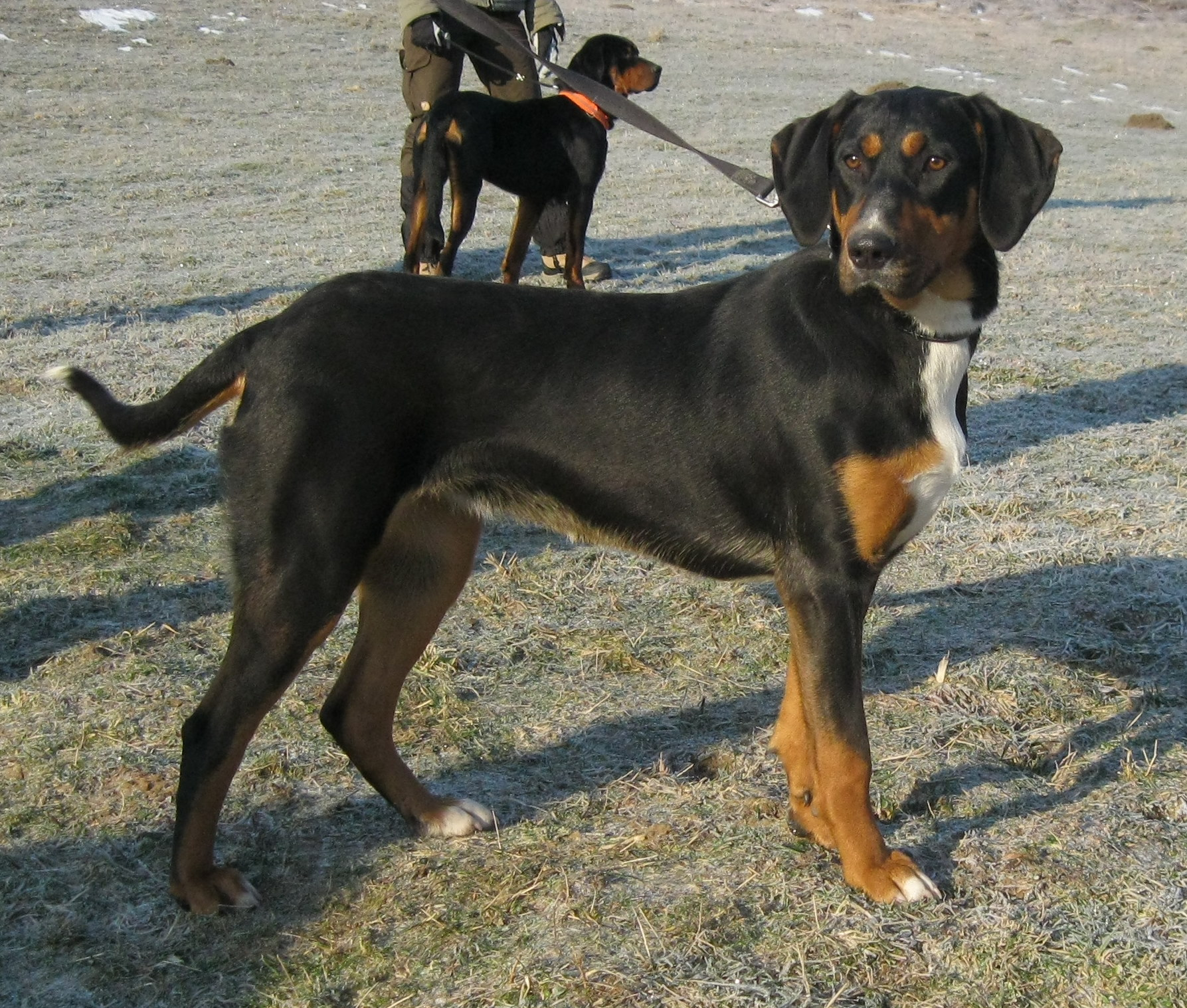 Transylvanian hound dog.